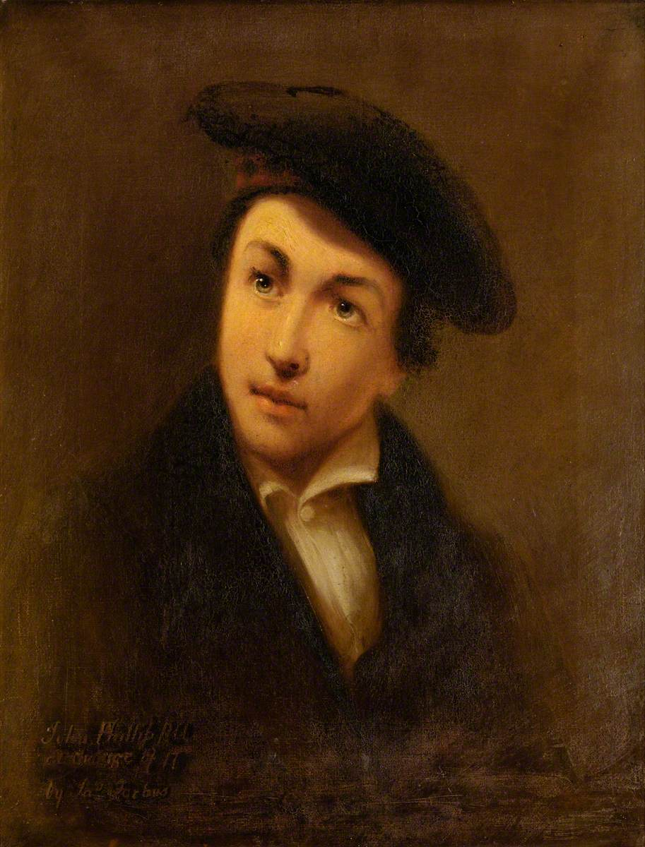 Portrait of John Phillip (1817-1867), Scottish artist